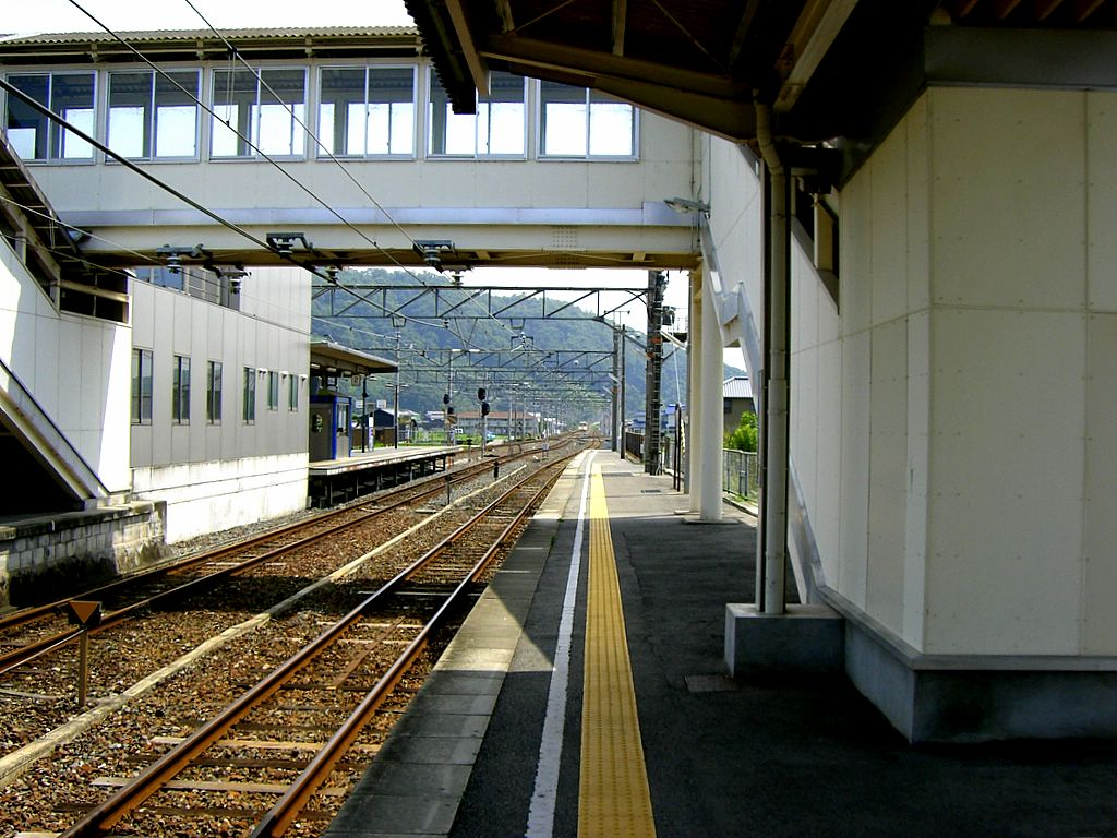 Looking toward Kurashiki Station at Kiyone Station in Okayama Prefecture, Japan.